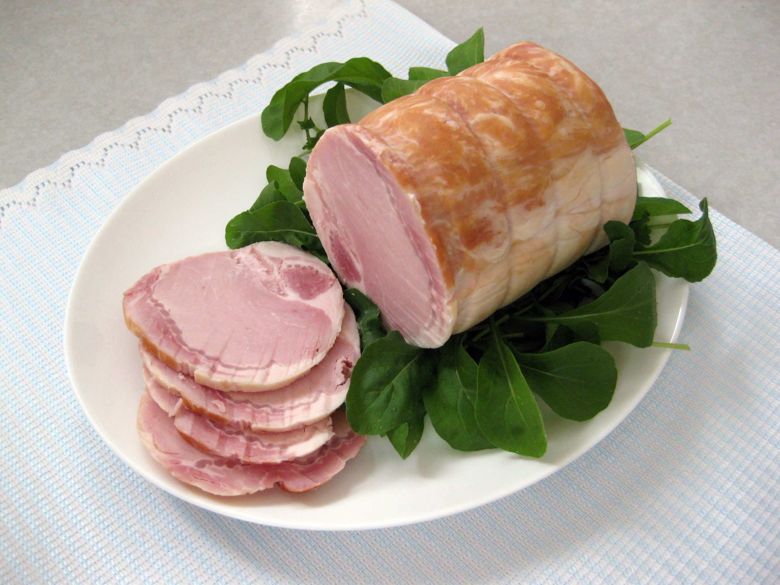 Pork loin ham with leaves of rocket (Eruca sativa), 鎌倉ハム冨岡商会 (Kamakuraham-Tomioka), see 鎌倉ハム.